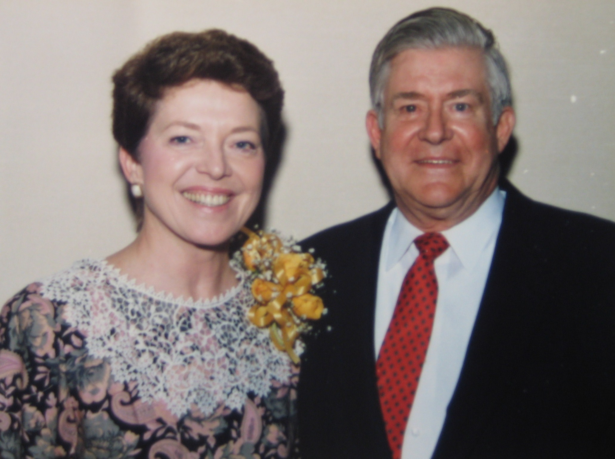 Picture of Edward Hardin